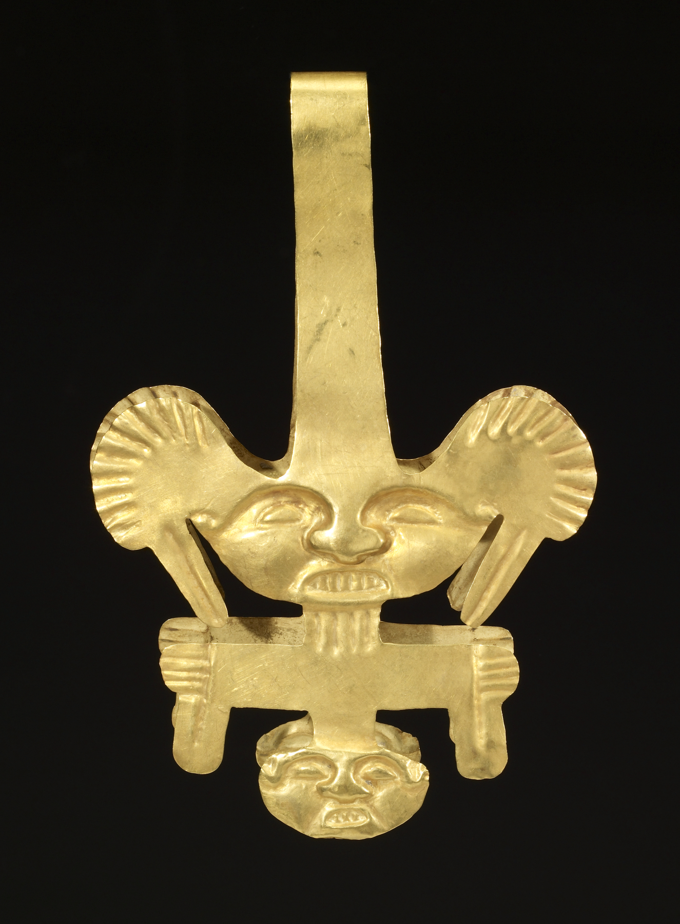 Men in ancient Colombia used tweezers to remove their facial hair. This elaborate pair may have been used during rituals or ceremonies. Simpler versions of such tweezers would have been used on a daily basis. Gold objects were made throughout the ancient Americas for the exclusive use of an elite class of rulers, priests, and other noblepersons.